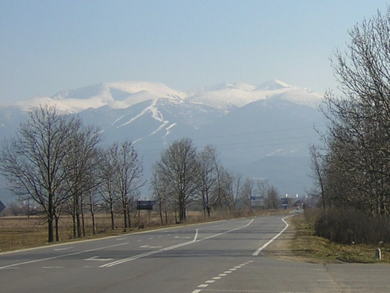 View of Musala and the Rila Mountians from the Samokov Plain.